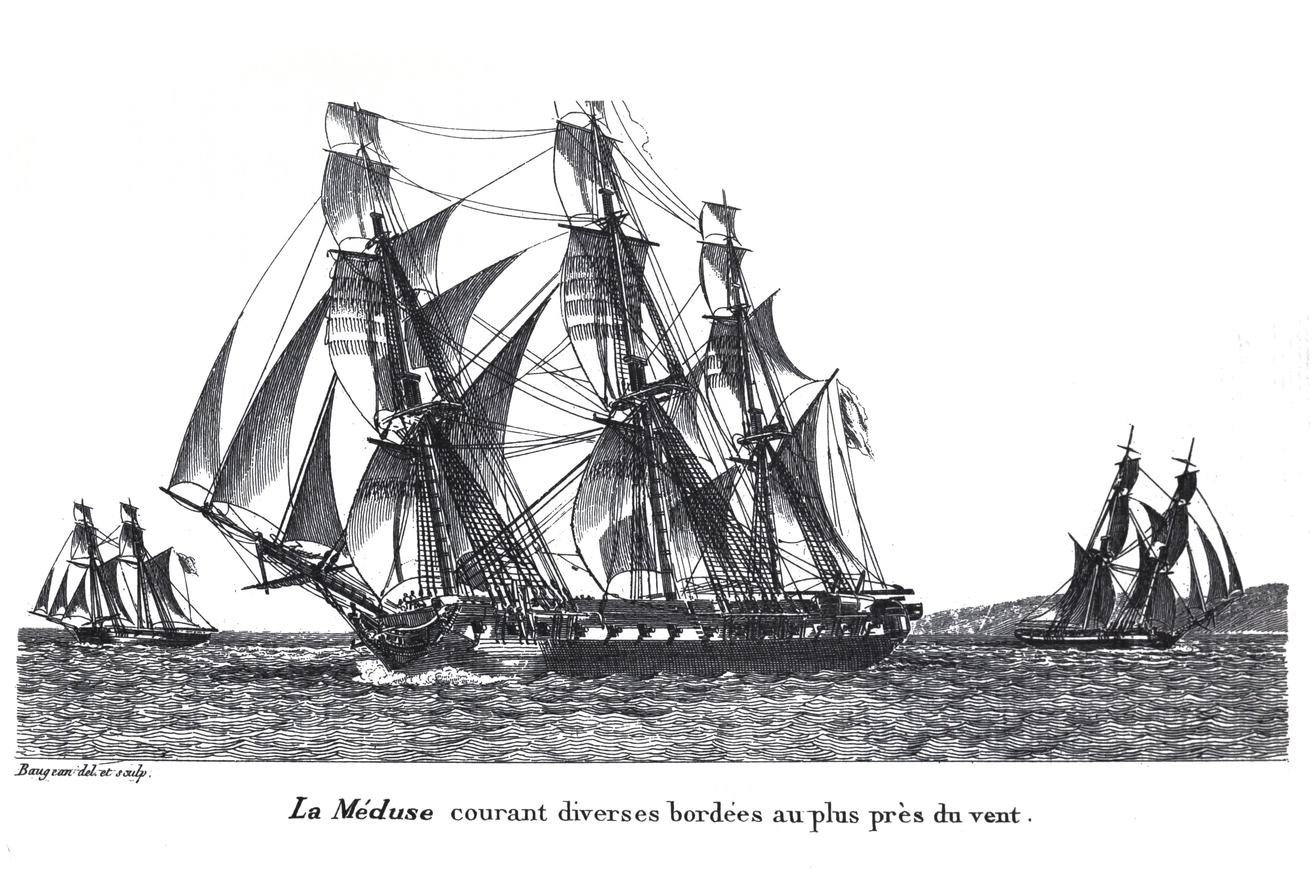 The frigate Méduse sailing various courses close hauled